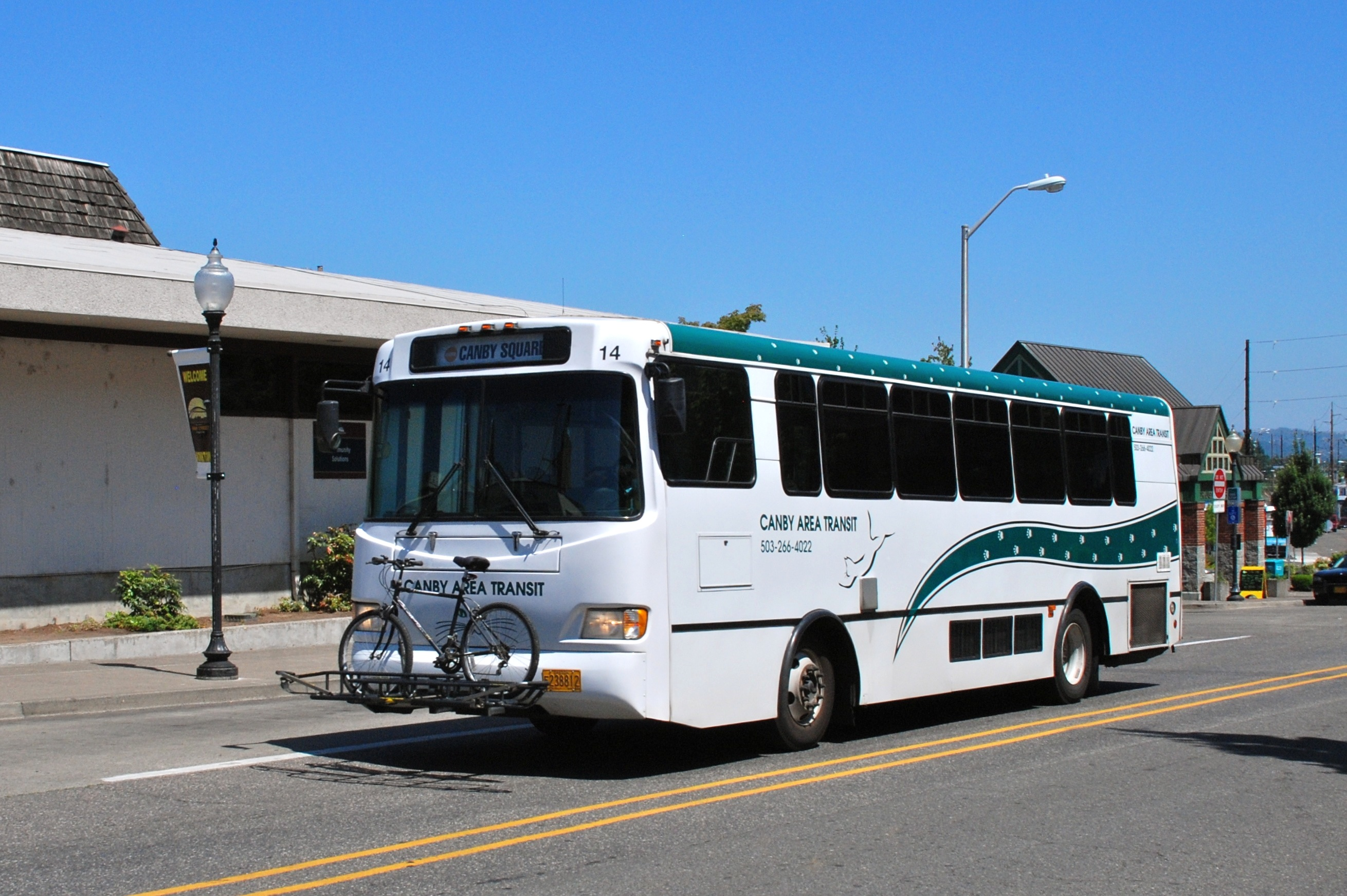 Bus 14 of Canby Area Transit (based in Canby, Oregon) is a Champion CTS Rear Engine model. It is pictured southbound on Main Street just south of Moss Street in Oregon City, having just left the Oregon City Transit Center of TriMet, headed for Canby.